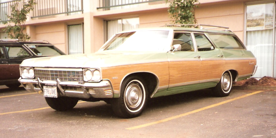 1970 Chevrolet Kingswood Estate station wagon I photographed in Pittsburgh, Pennsylvania in June 2000.